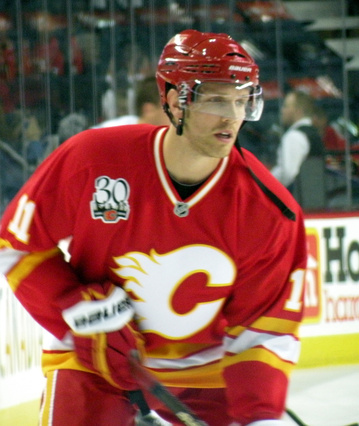 Calgary Flames forward Fredrik Sjostrom during warm-up prior to a National Hockey League game against the Vancouver Canucks, in Calgary.